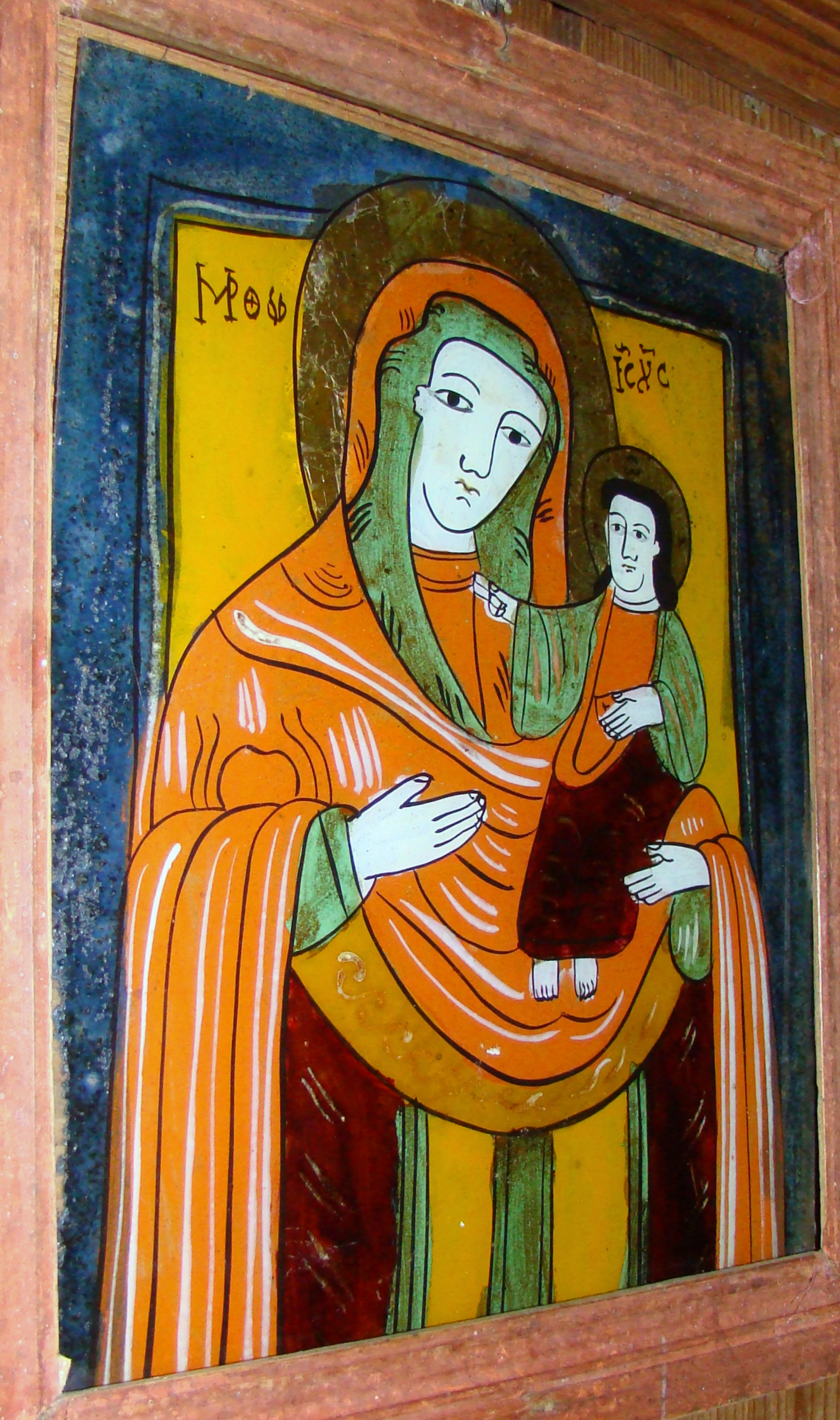 Wooden church in Lugașu de Sus, Bihor county, Romania